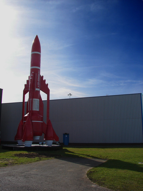 Thunderbird 3 Wonder when the next flight is? Unusual object at Humberside Airport.